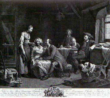 "La demande acceptée" ("The Proposal Is Accepted") by French engraver Charles Clément Balvay. Line-engraving.